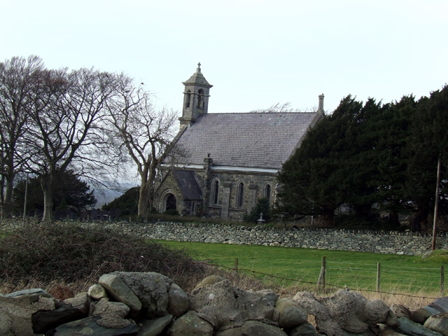 Llanllechid Church. Llanllechid Church